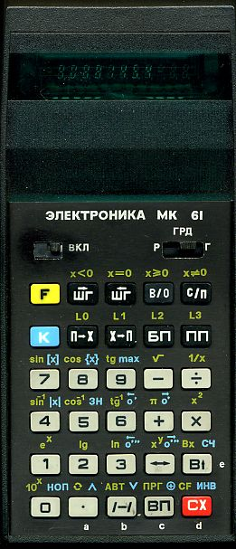 Elektronika MK-61, scan from my collection